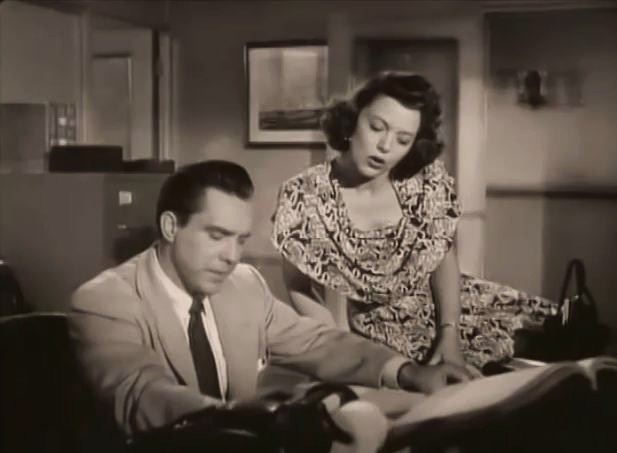 Edmond O'Brien and Carol Hughes in D.O.A. (1950) - cropped screenshot